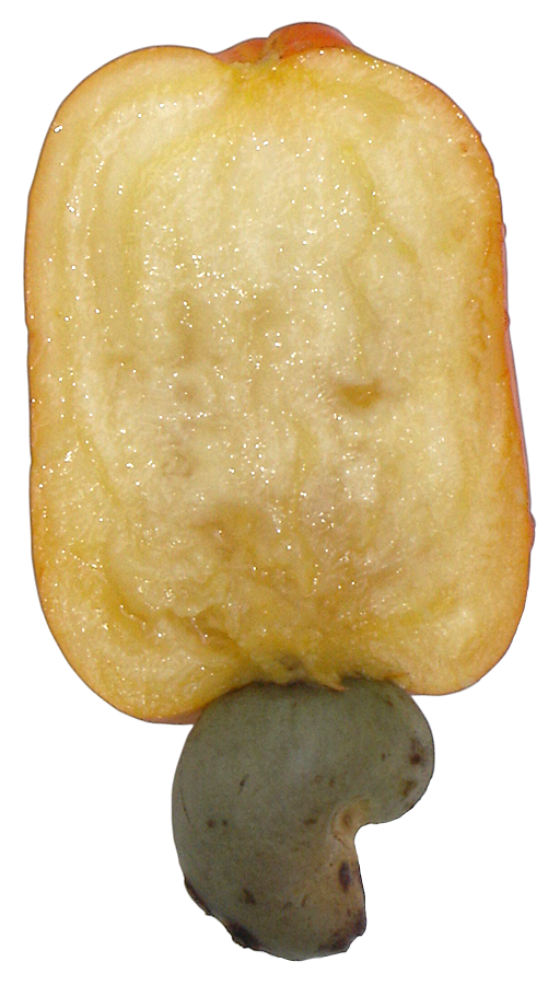 Cut of a cashew accessory fruit. Town of Prainha near Fortaleza, Ceará, Brazil.